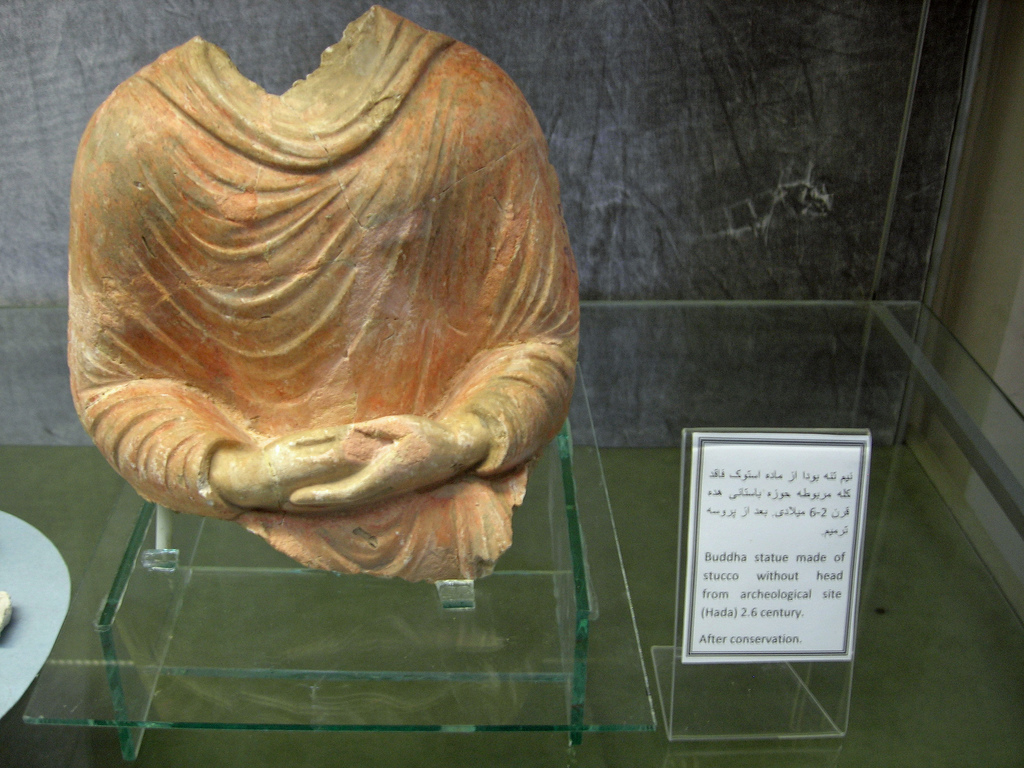 Buddha statue made of stucco without head, from archeological site Hada. 2.6 century. In Kabul Museum.